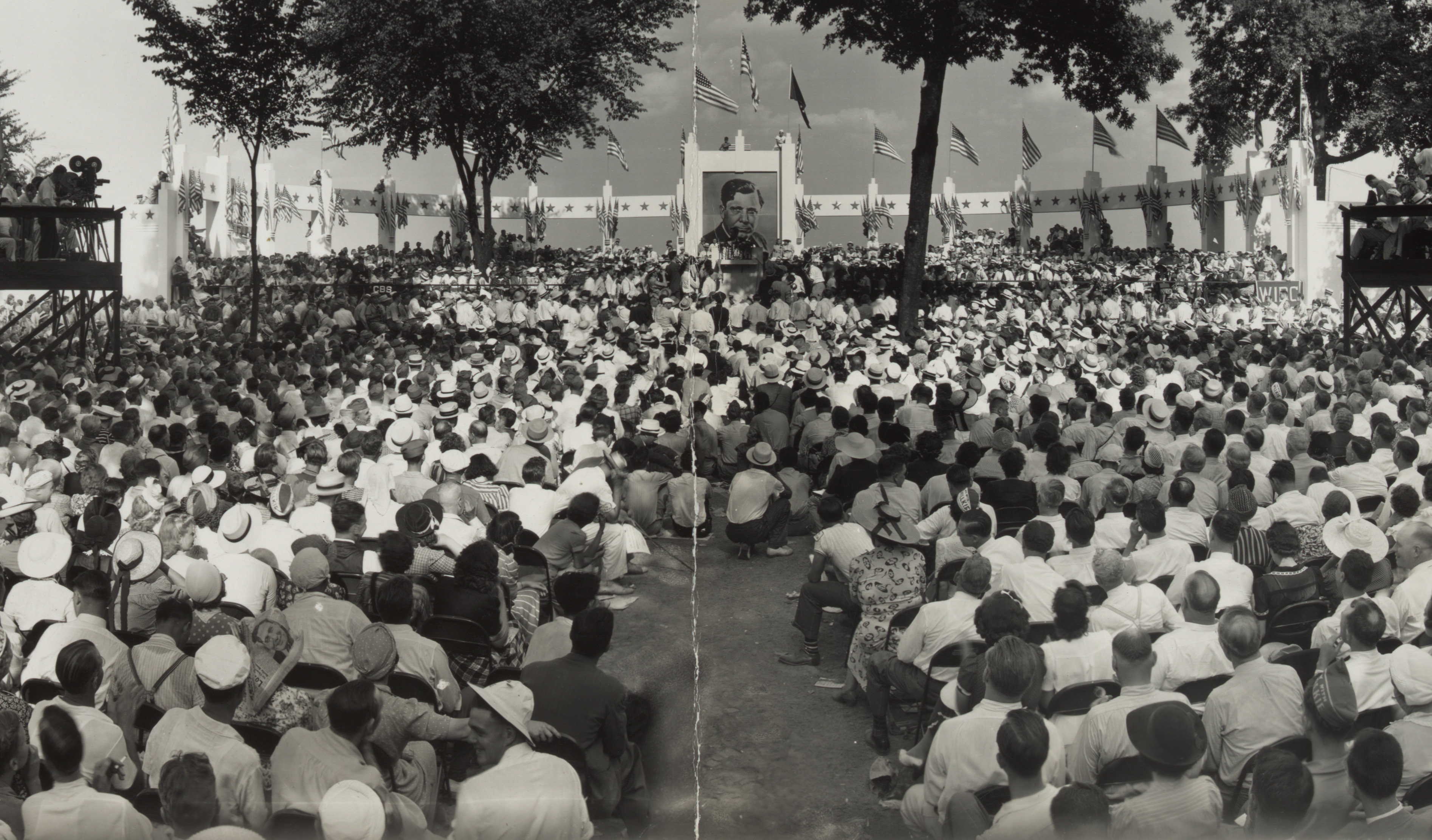 Wendell L. Willkie Notification Ceremony, Elwood, Indiana, U.S.A., August 17, 1940. Republican Party presidential candidate Wendell L. Willkie is officially notified of his nomination in his hometown.